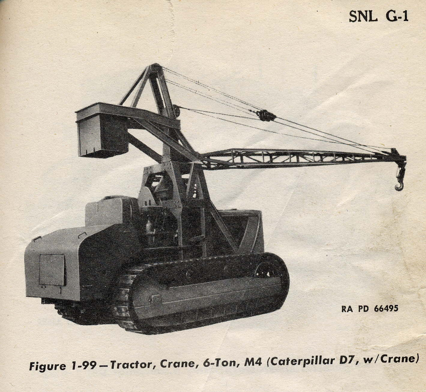 M4 Tractor Crane Caterpiller D-7